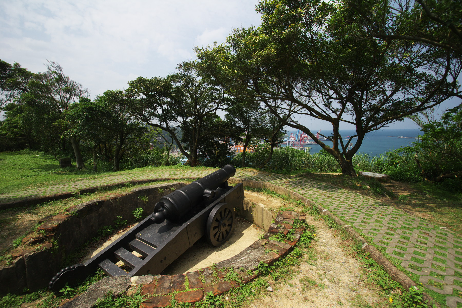 IMG 1781 Uhrshawan Battery